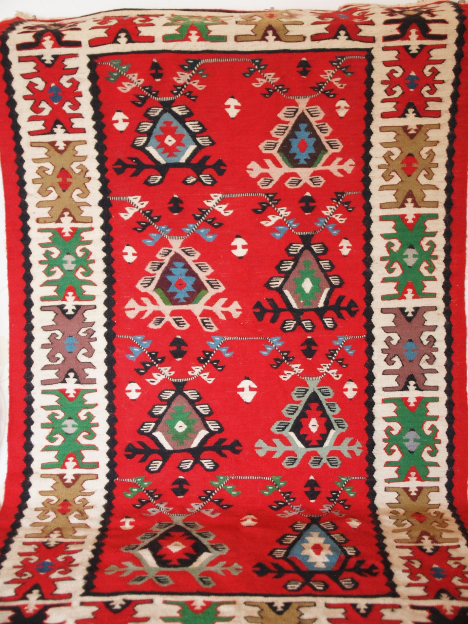 Pirot kilim Dulovi na lancu